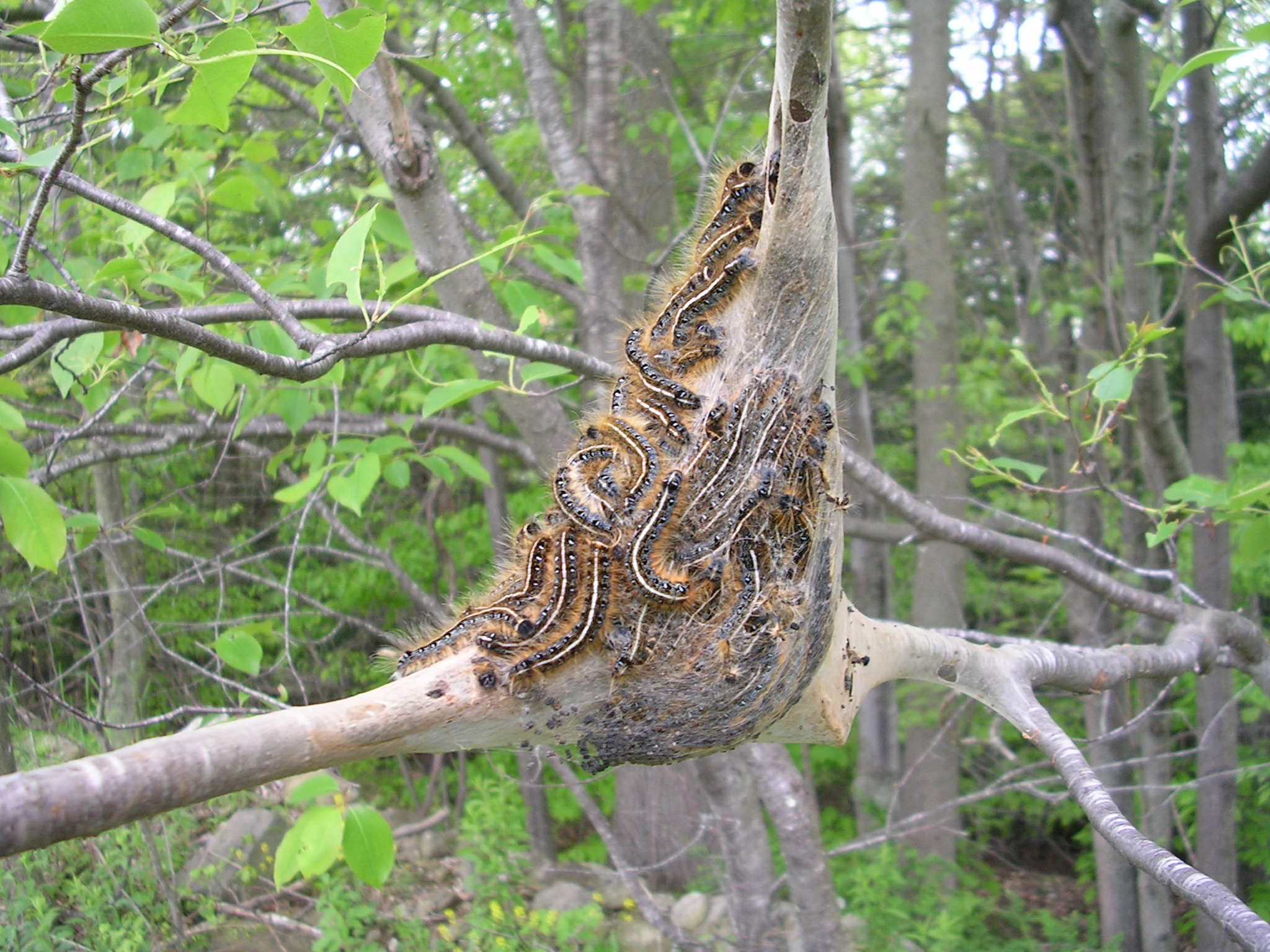 An Eastern Tent Caterpillar tent, showing many caterpillars bundled together (presumably for heat conservation).